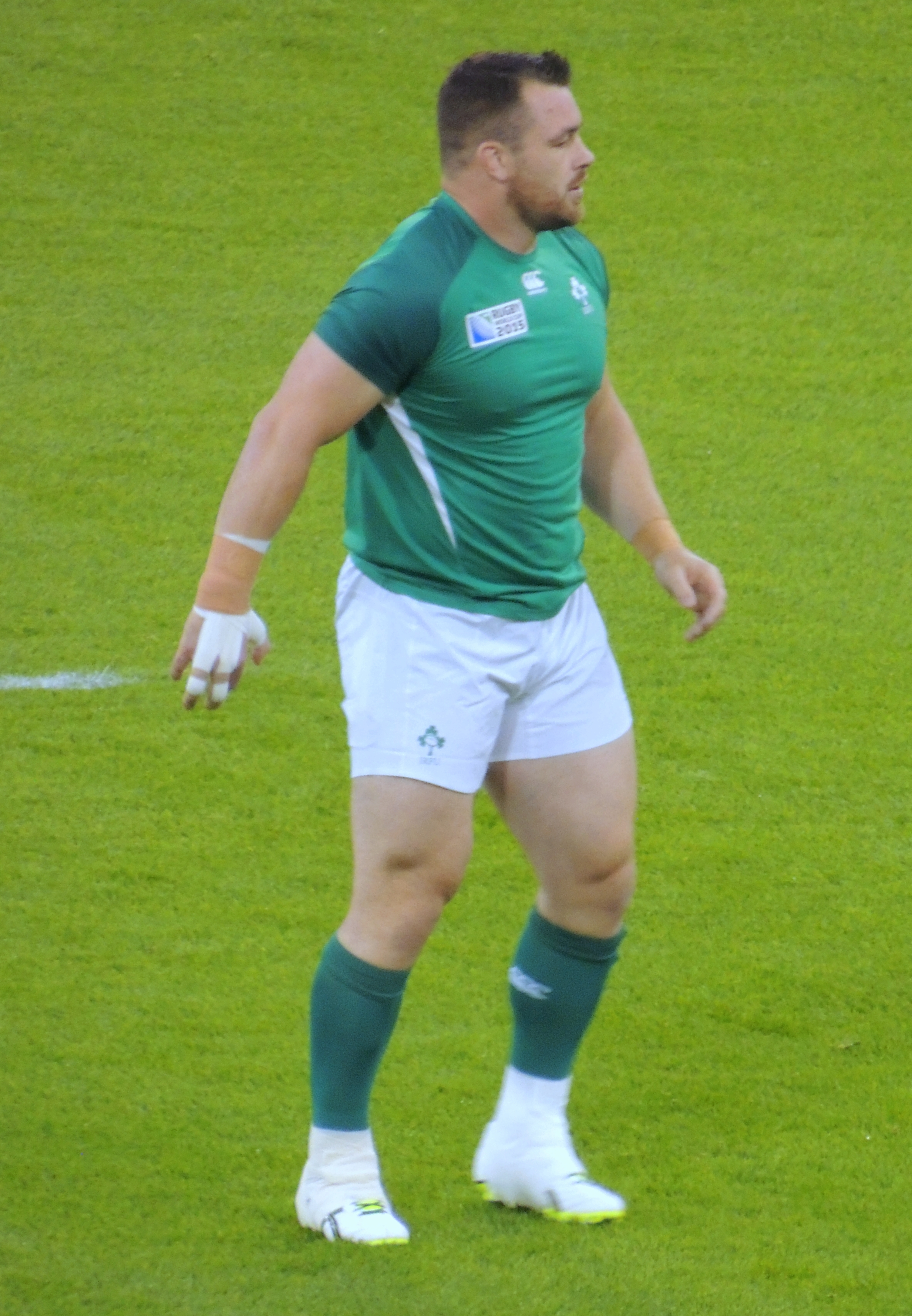 Irish rugby union player Cian Healy playing in 2015 Rugby World Cup game Ireland vs Canada at Millennium Stadium in Cardiff.